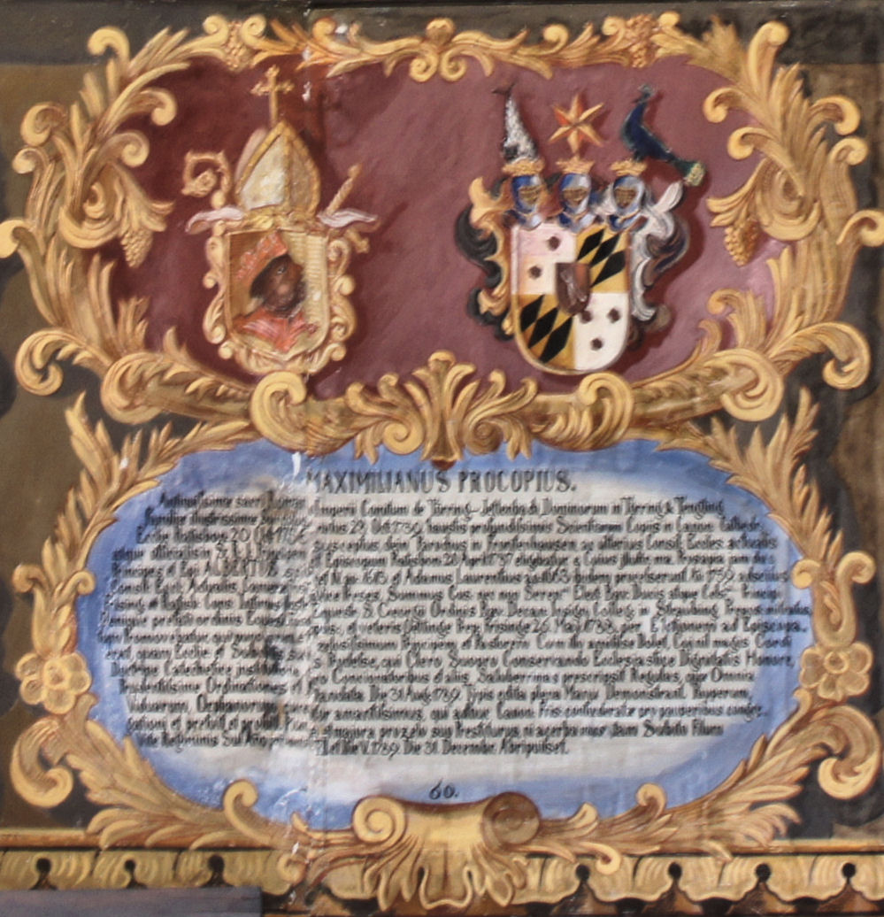 Wappentafel von Maximilian Prokop von Toerring-Jettenbach, Fürstbischof von Freising, im Fürstengang zwischen Fürstbischöflicher Residenz und Freisinger Dom. Links das geistliche, rechts das persönliche Wappen, darunter ein lateinischer Text mit kurzer Biographie.